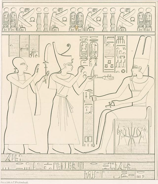 Drawing of a relief of pharaoh Sethnakht (middle) in Medinet Habu. 20th dynasty, New kingdom.